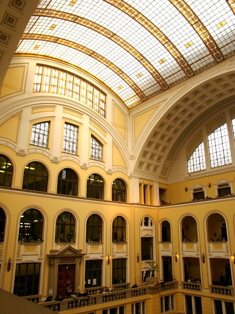 University Debrecen, Inner yard as a type of winter garden